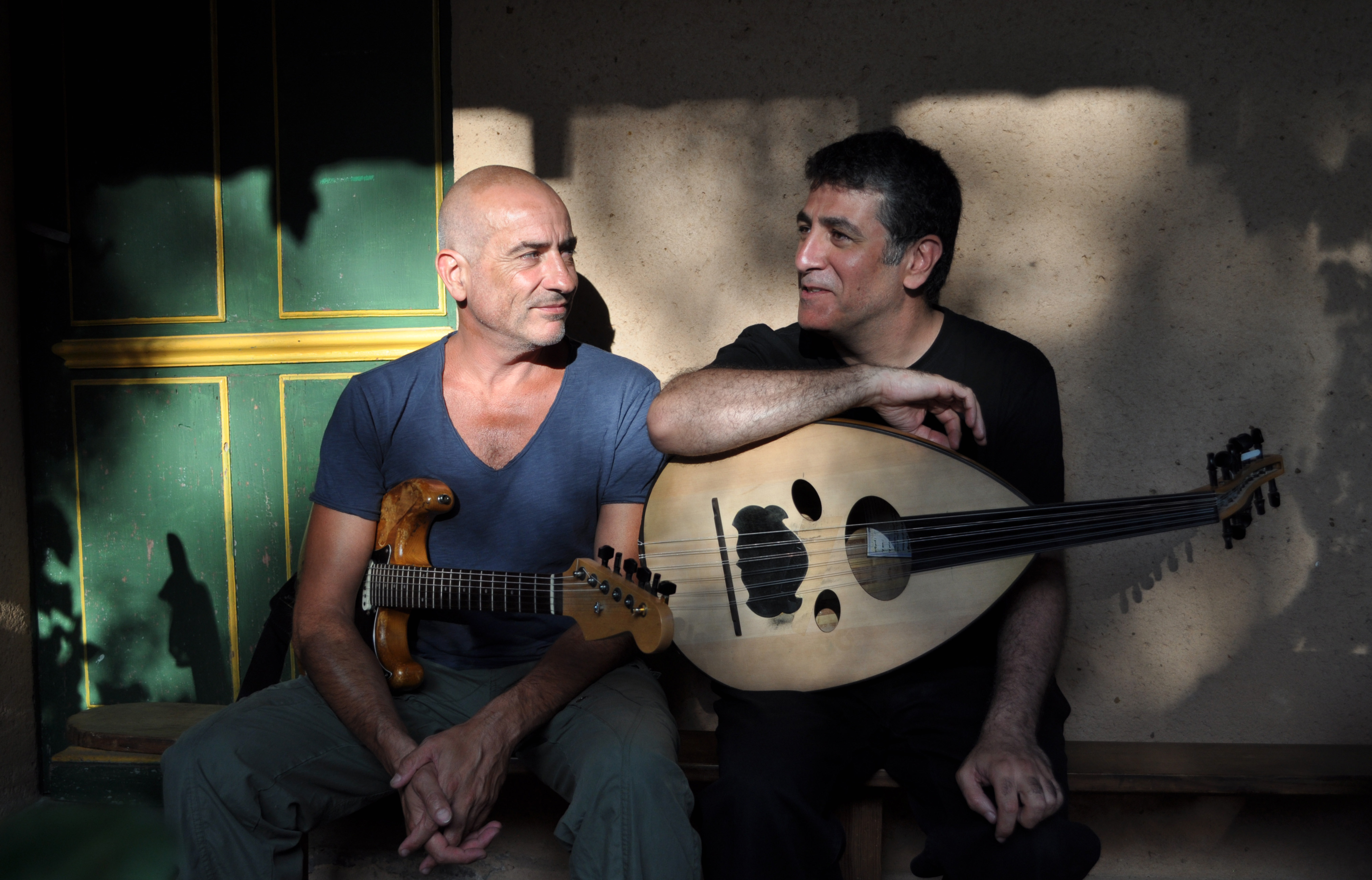 Franco-Syrian band :Serge Teyssot-Gay (guitar) and Khaled Al Jaramani (oud) Photo July 2012